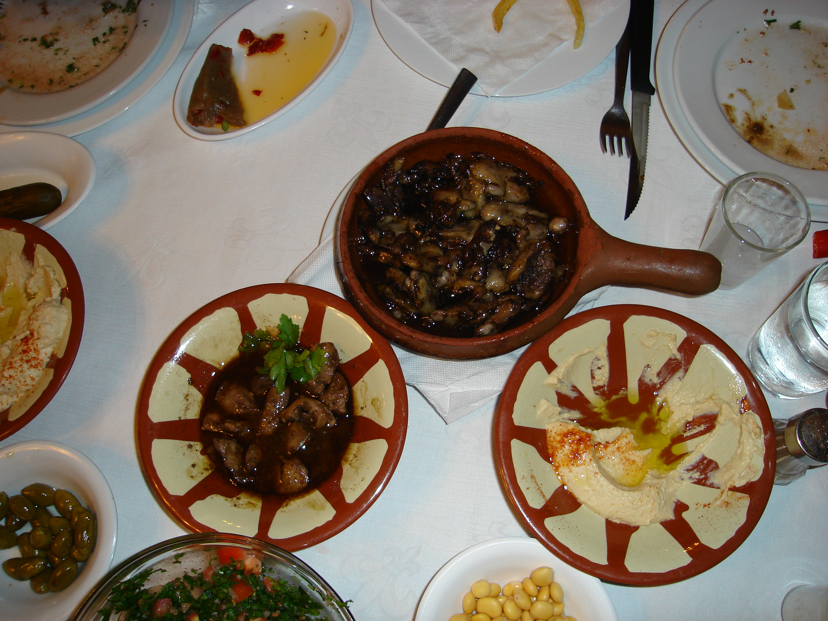 Birds, chicken liver in grenade syrups, hummus tabouli See where this picture was taken. [?]